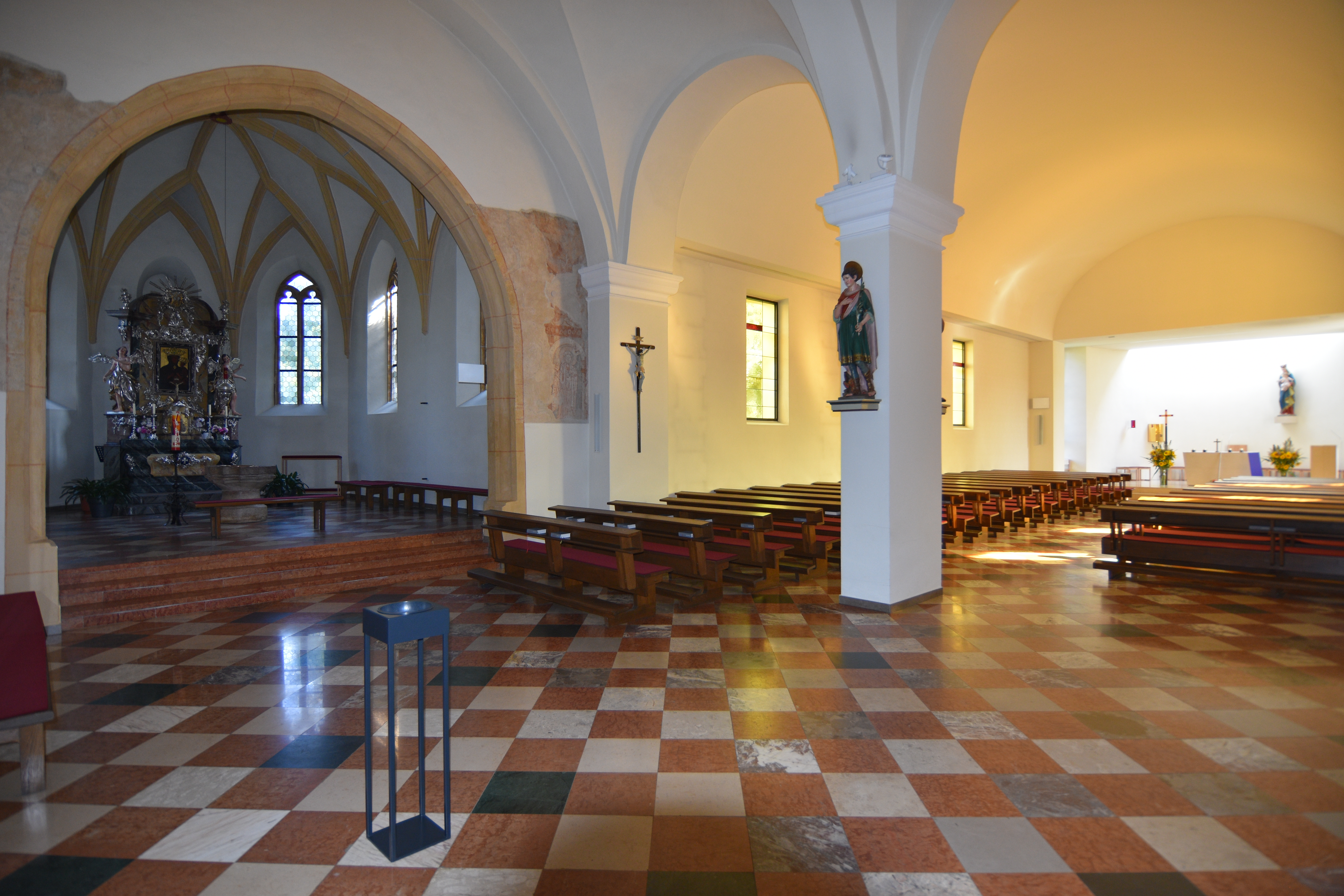 Veitskirche (Paldau)